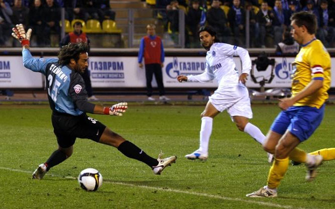 Argentine attacking midfielder Alejandro Domínguez scoring in Zenit 8-1 Luch game